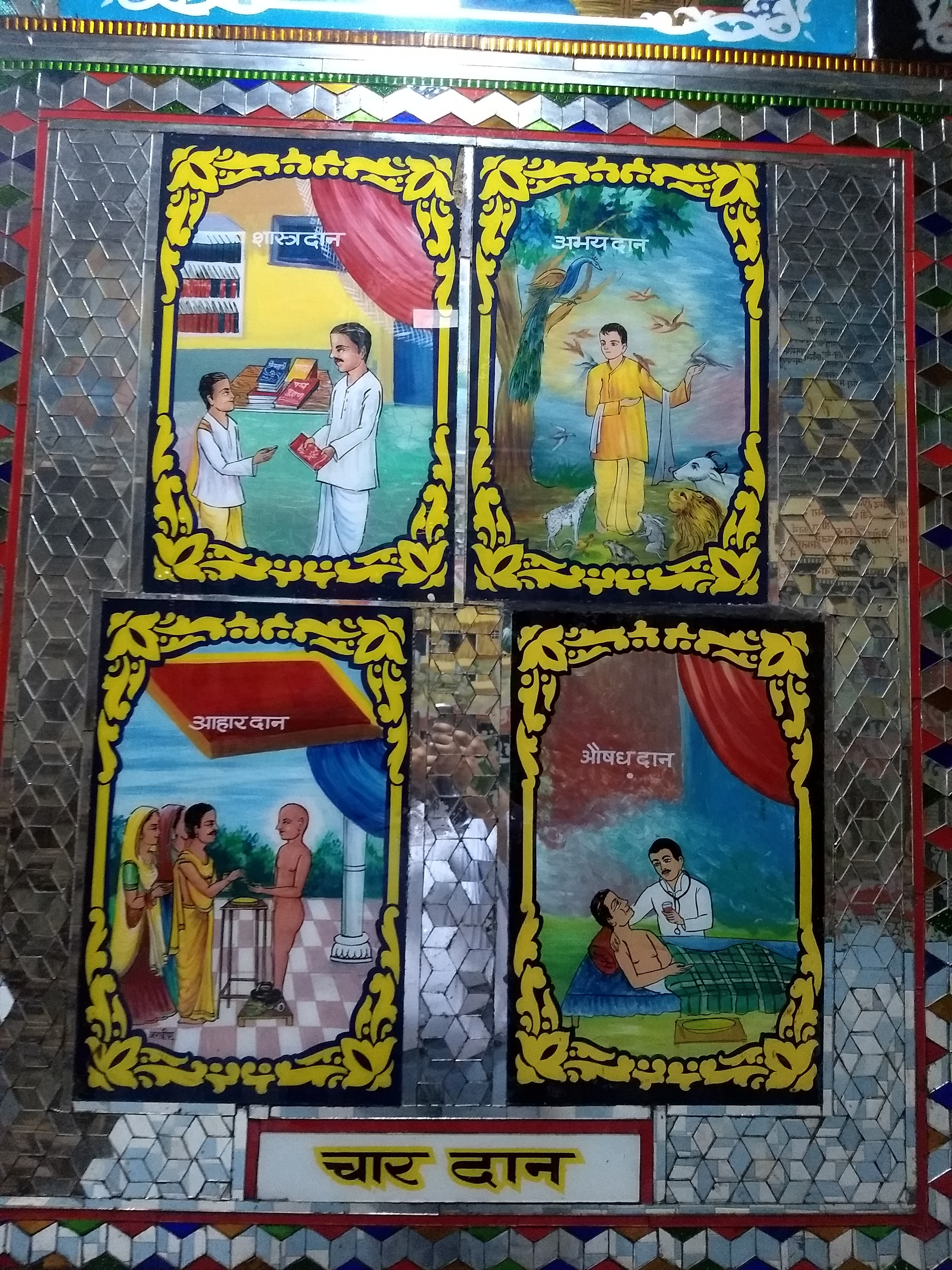 Tijara Jain temple paintings